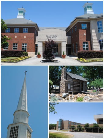 Photos I took around Mauldin, South Carolina